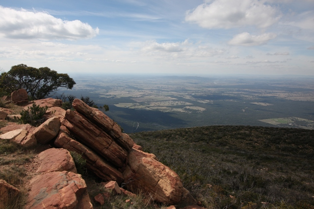 View from Mount William, towards Ararat.